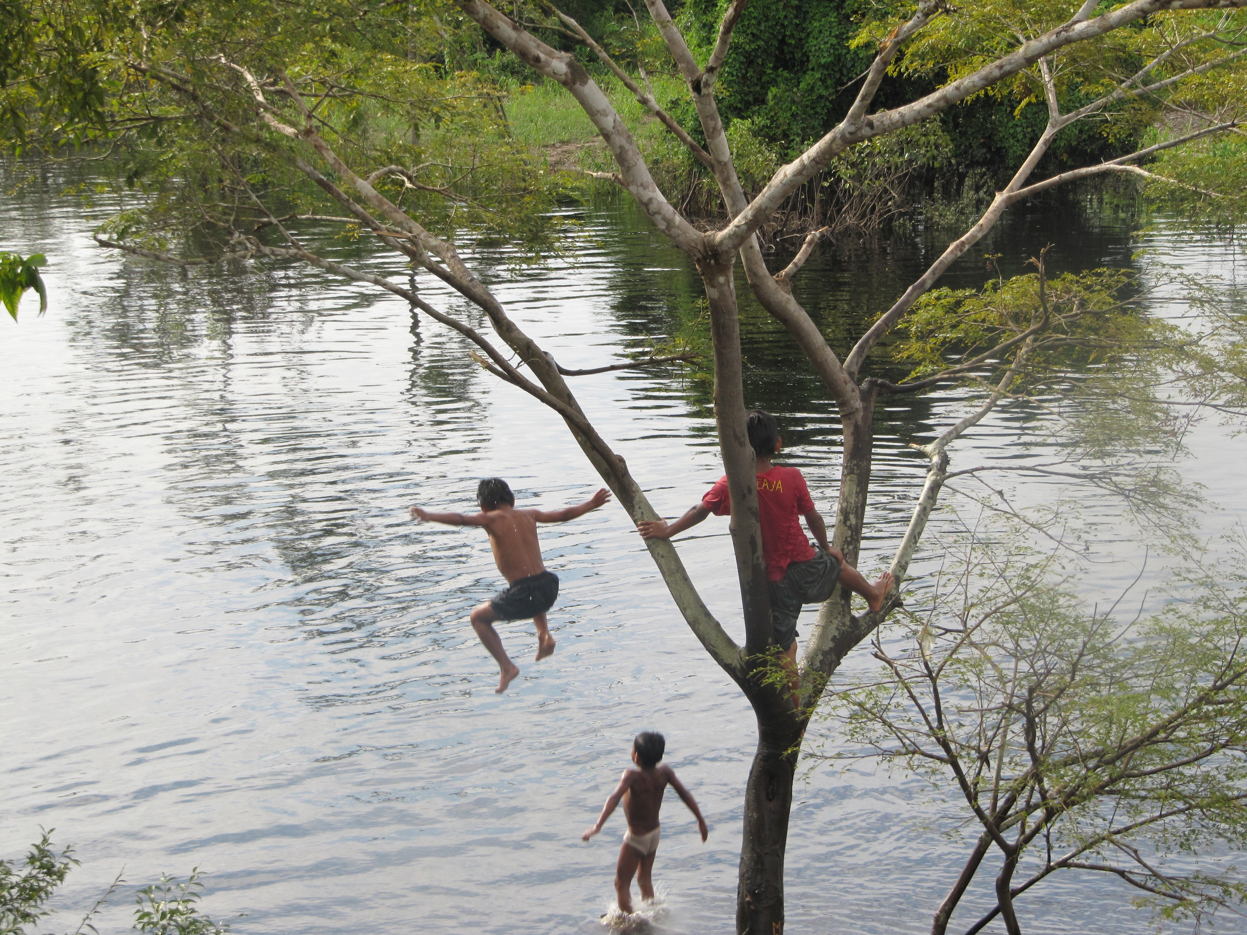 Kids from the Chino village (pop. 60) swimming in the Tahuayo River for fun! We saw them on our Amazonian Expidition owned and operated by Paul Beaver in 2010.